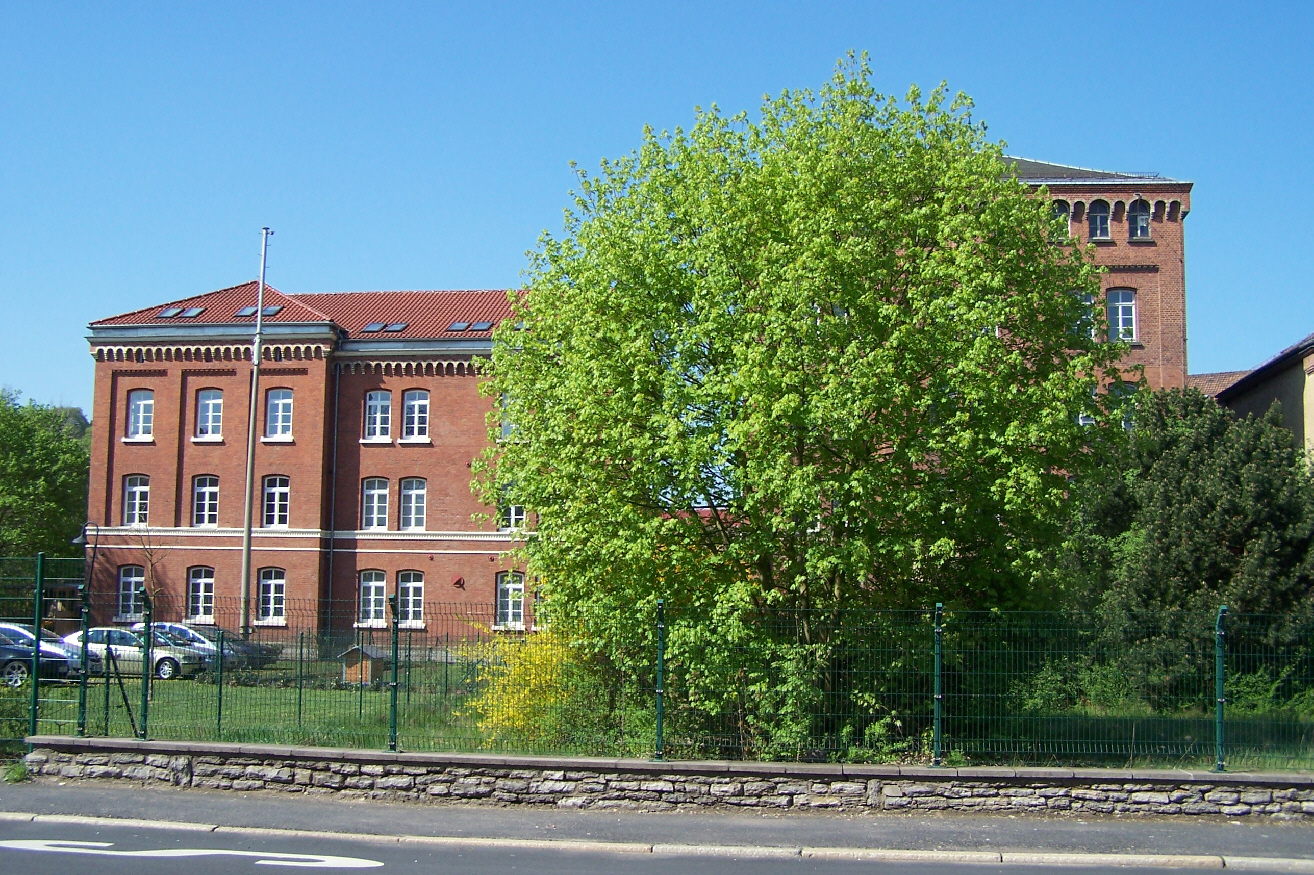 The former casern in Eisenach, Hospitalstraße.